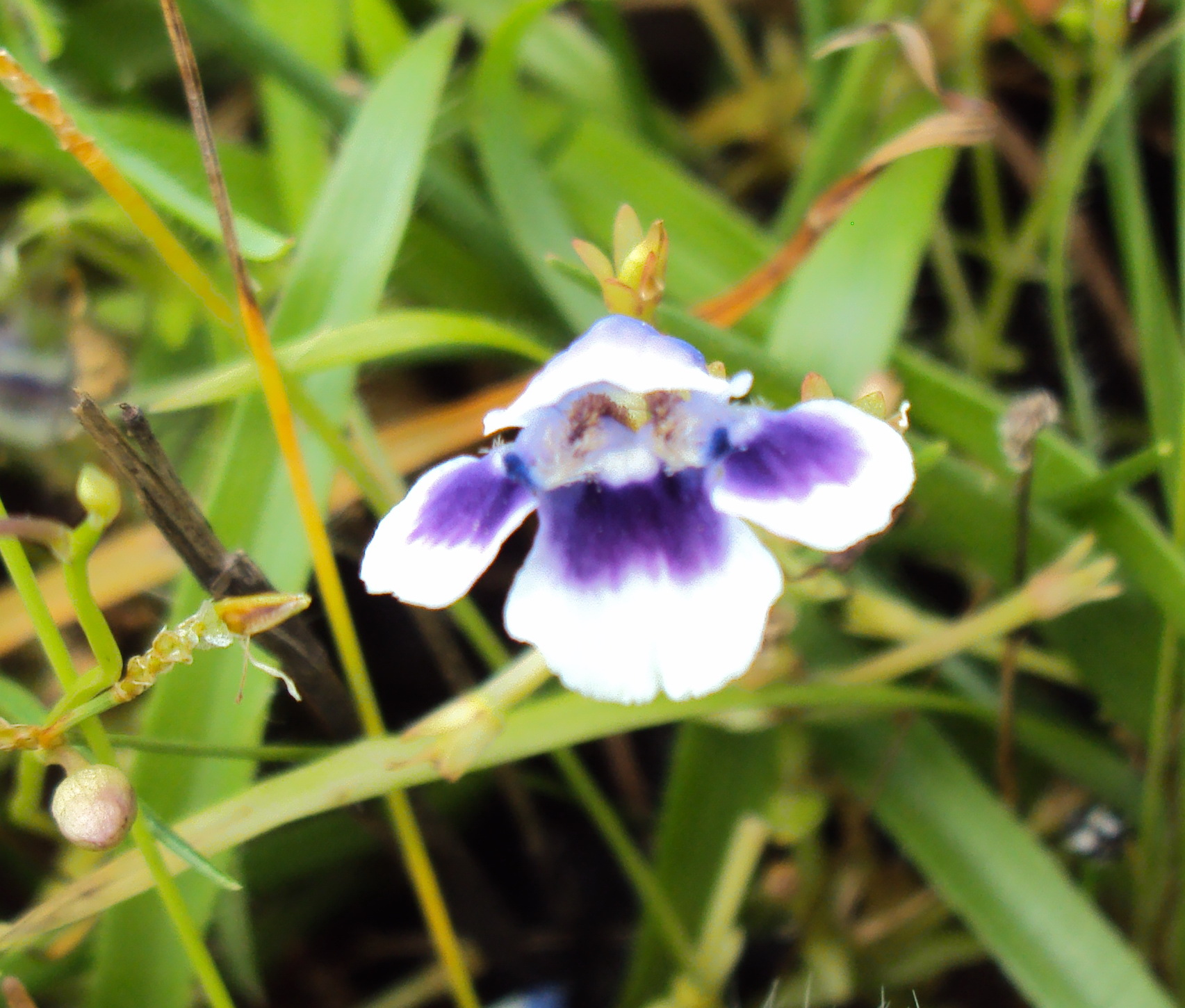 Lindernia hyssopoides